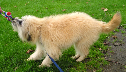 Pyrenean Shepherd (Rough-faced) playing tug of war "Corky", 6 months old, owned by Suzy Bluford Taken Feb 22,2004 at the SMART/USDAA dog agility competition in Salinas, CA. Photo by Ellen Levy Finch (Elf).